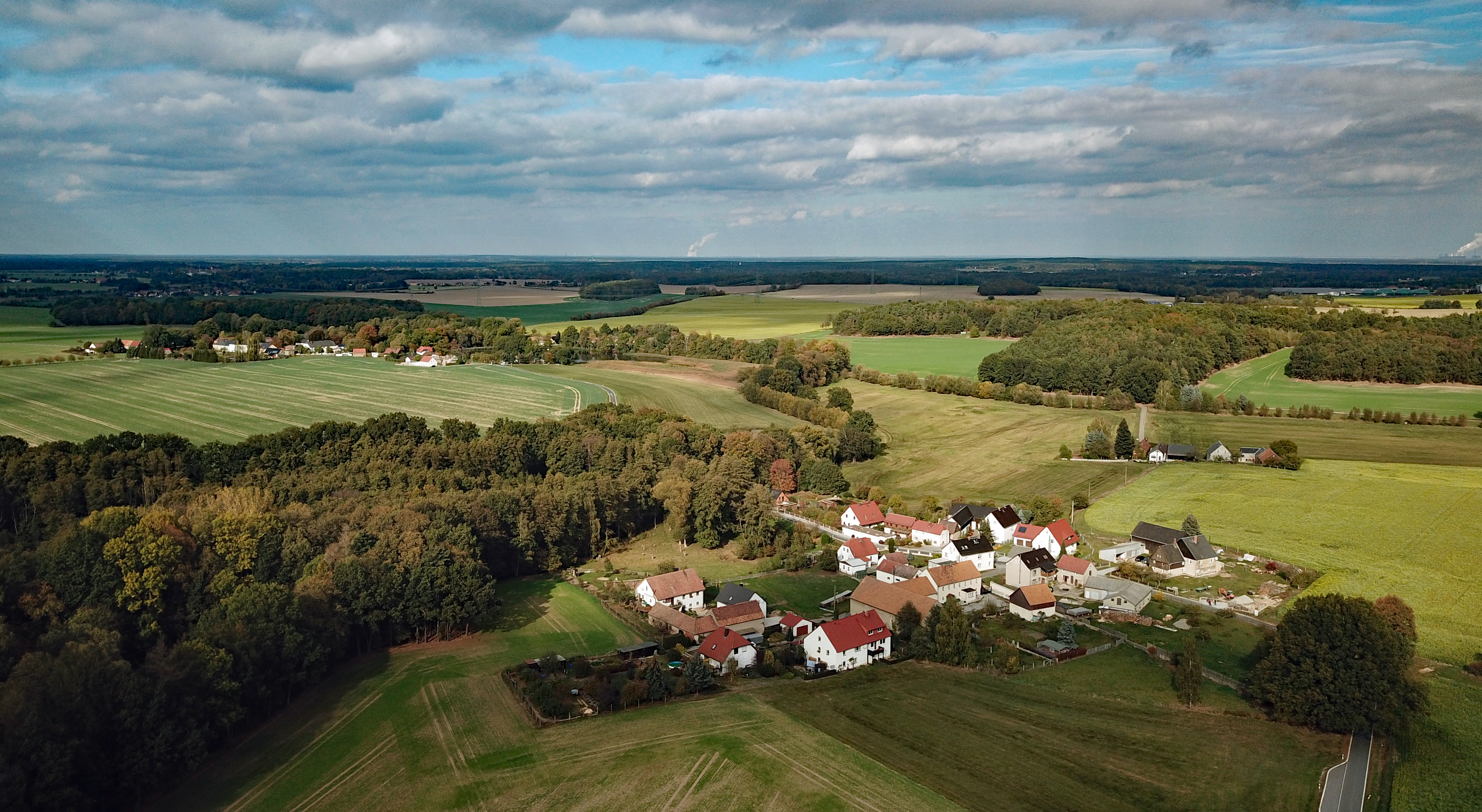 Großbrösern (Radibor, Saxony, Germany) Hornjoserbsce: Powětrowy wobraz Wulkeho Přezdrěnja